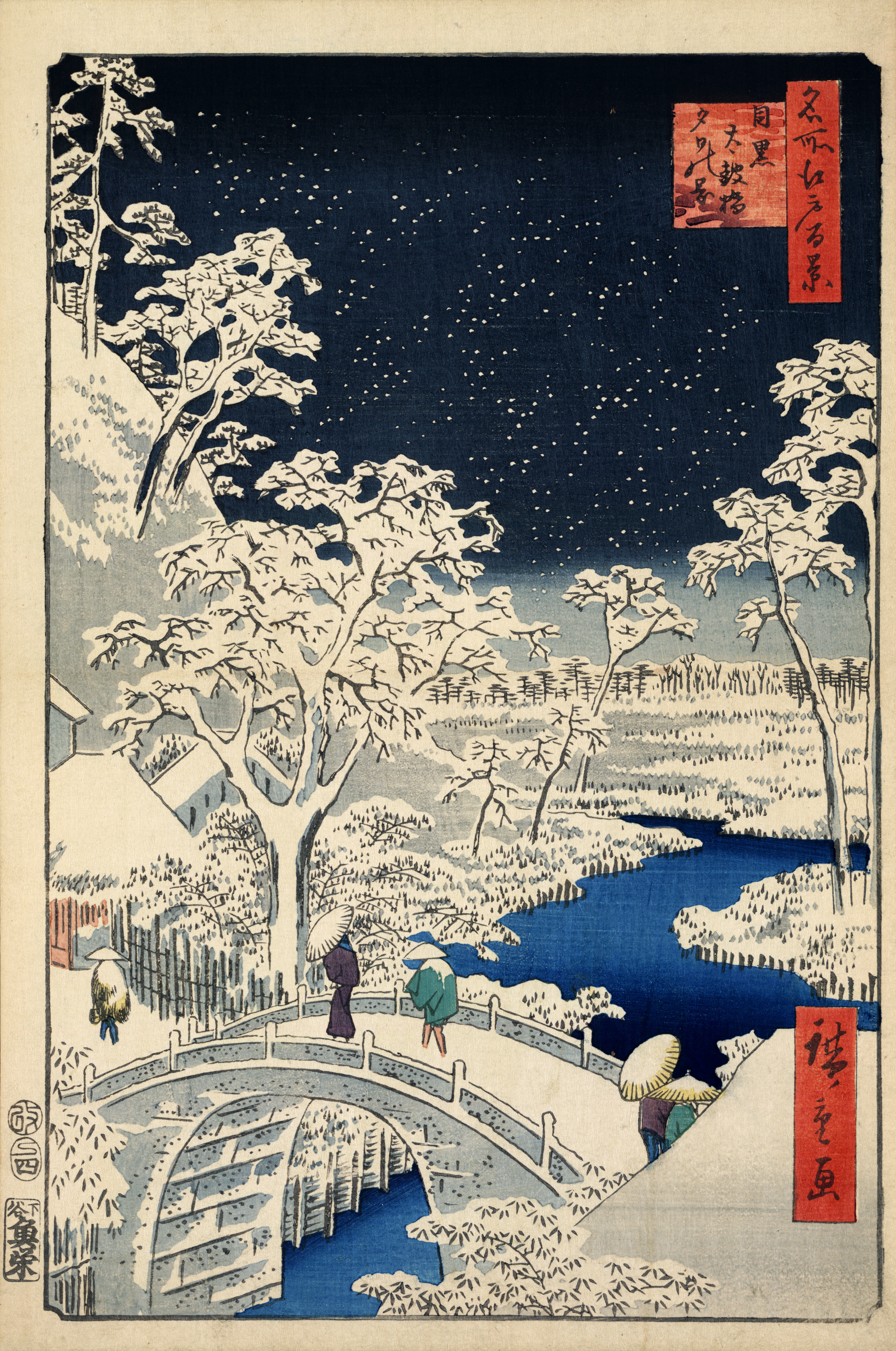 One Hundred Famous Views of Edo #111, "The Drum Bridge and Sunset Hill at Meguro" (Meguro taikobashi yūhinooka). Ukiyo-e print shows hows pedestrians crossing a stone bridge during a snowstorm.